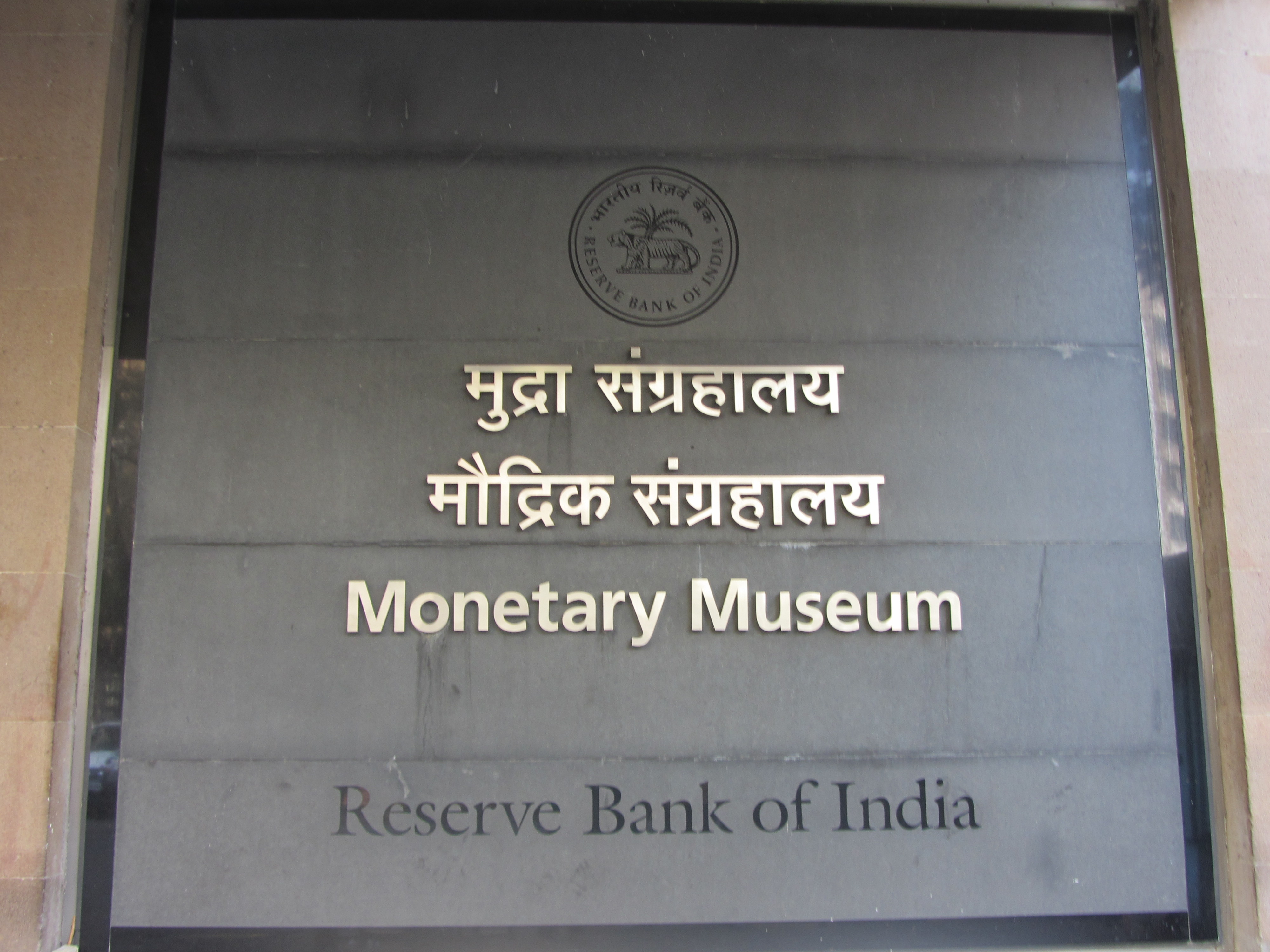 Reserve Bank of India museum, located in South Mumbai.